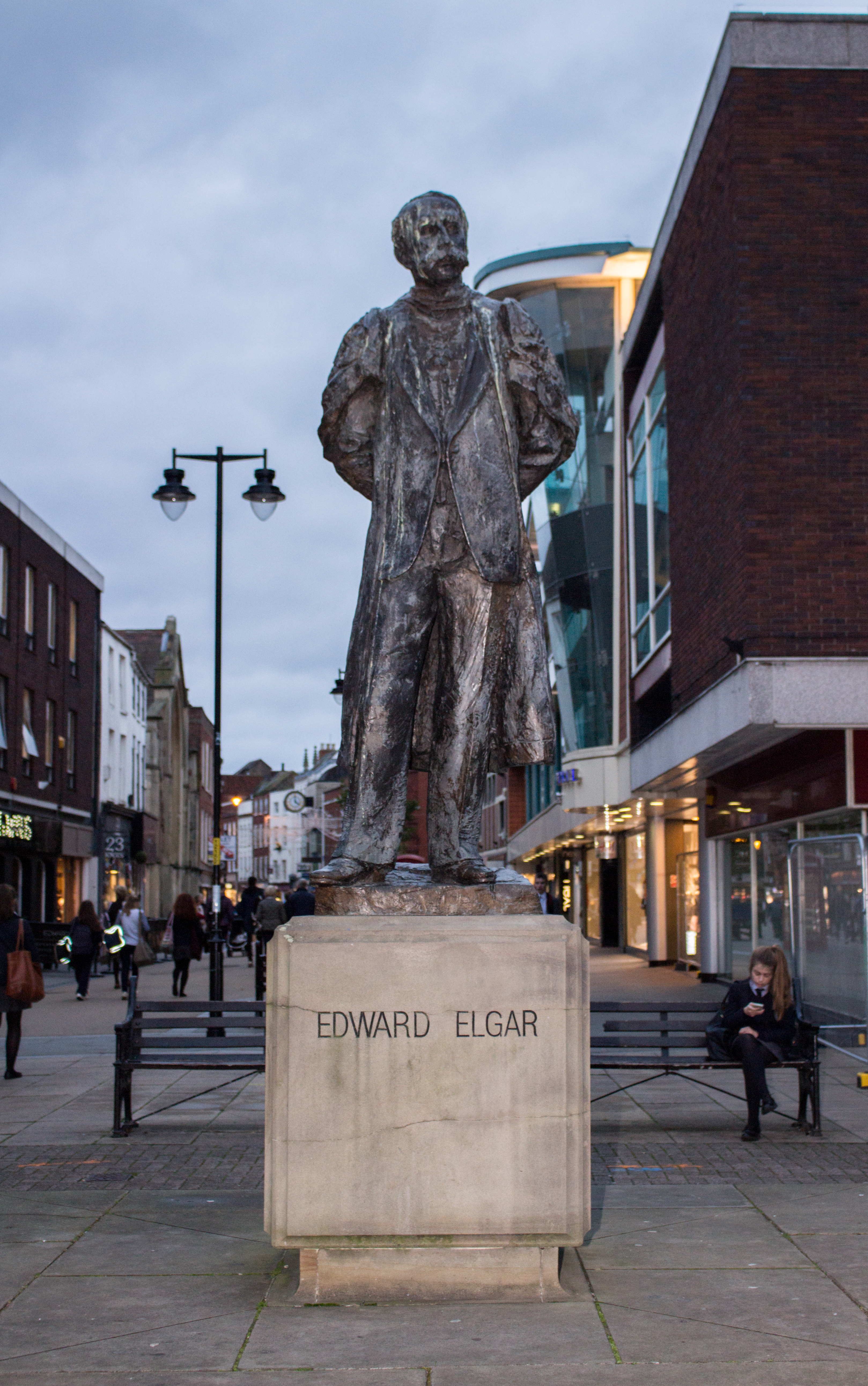 A statue of Edward Elgar at the end of Worcester High Street in Worcester, United Kingdom